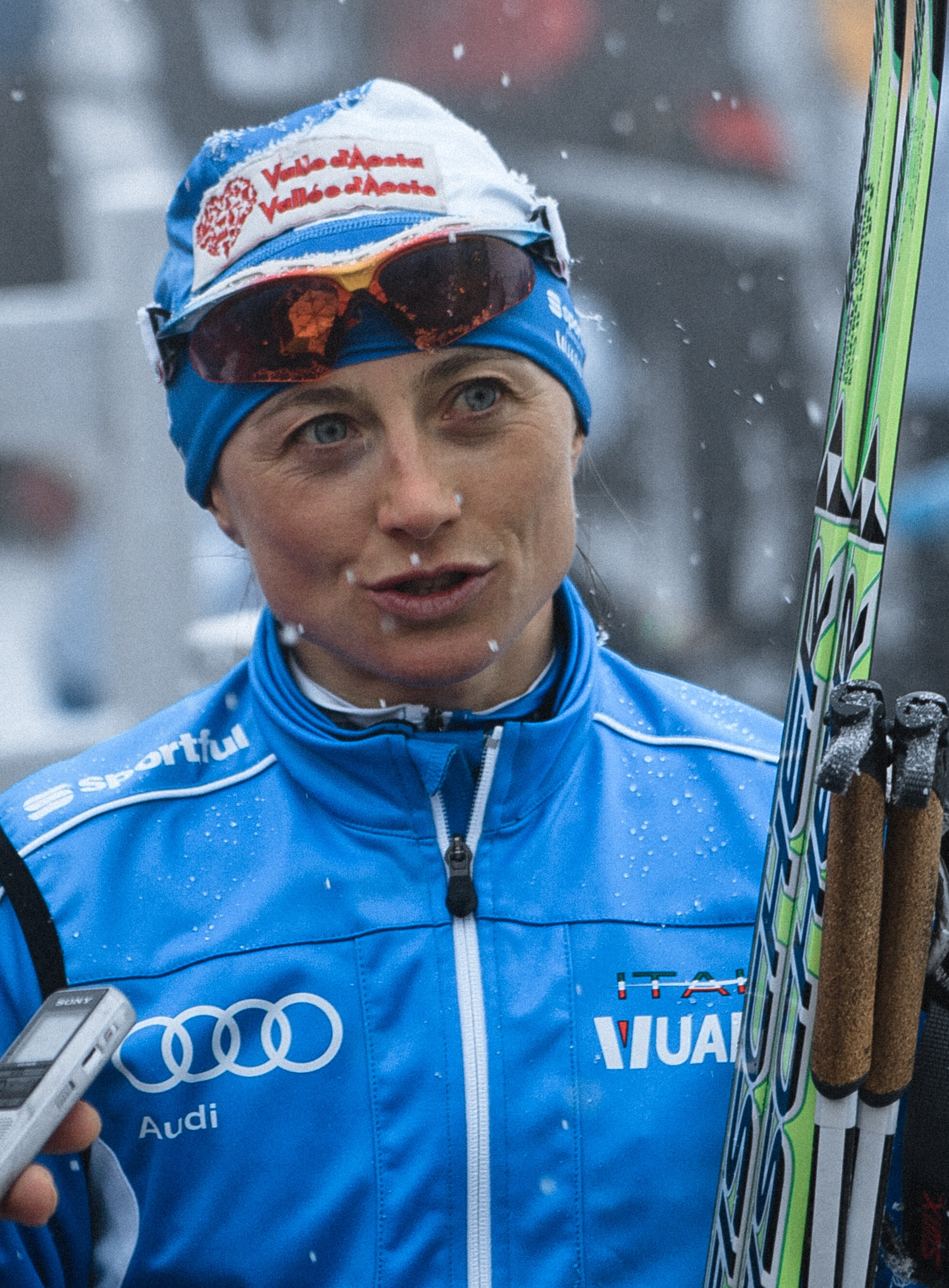 Arianna Follis at the 2011 FIS Nordic World Ski Championships.